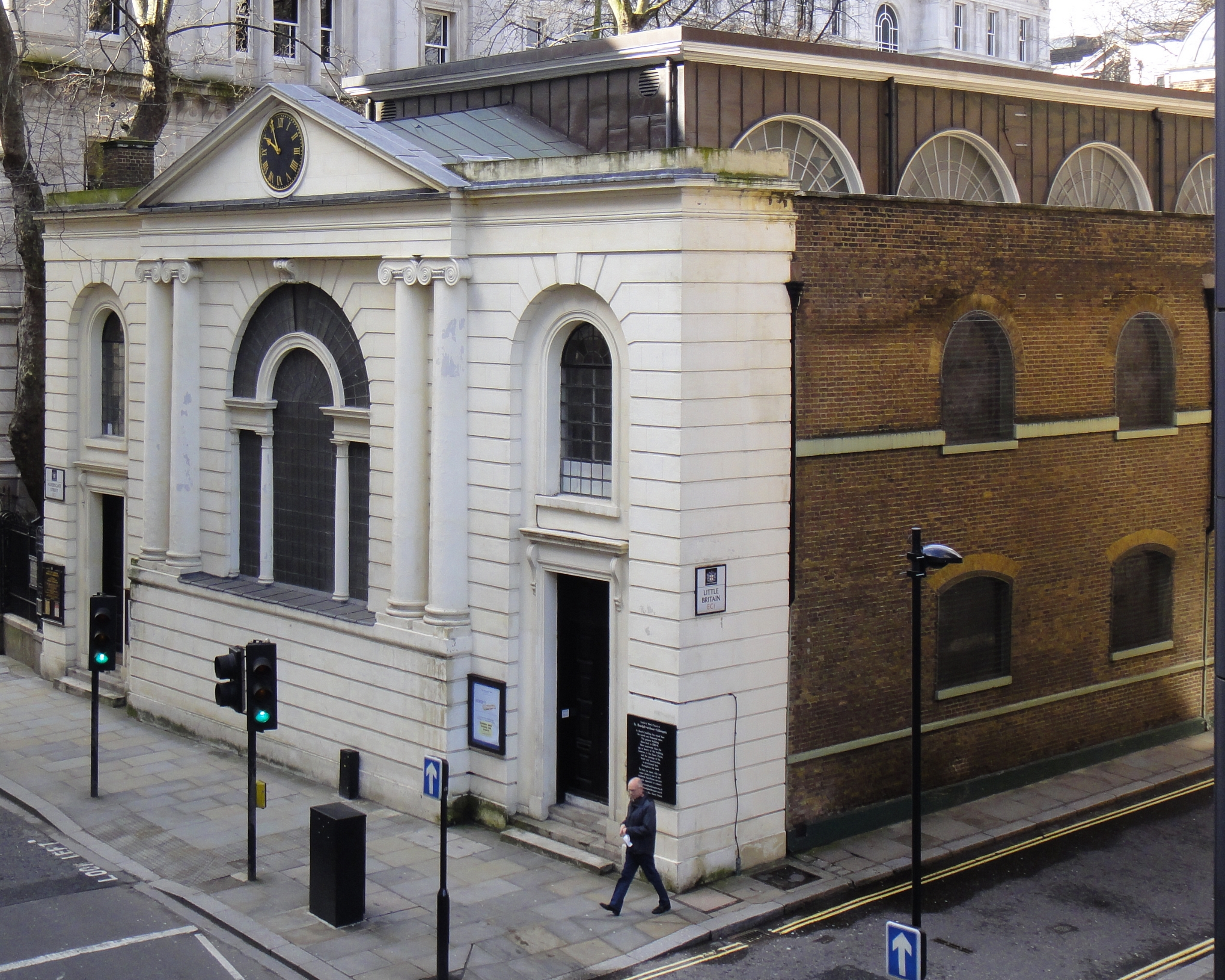 St Botolph's without Aldersgate church in London, Little Britain